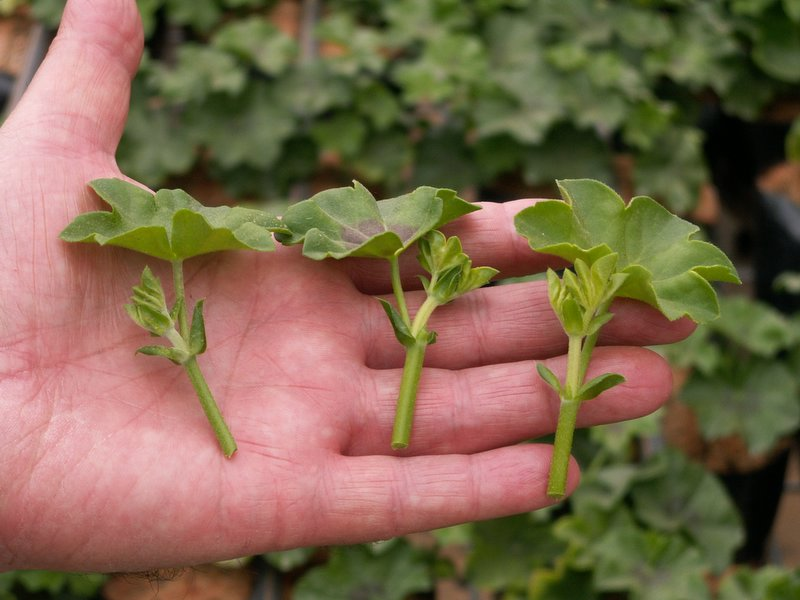 Ivy-leaf Pelargonium cuttings eigenes Bild Autor Martin Fischer Datum Sommer 2005